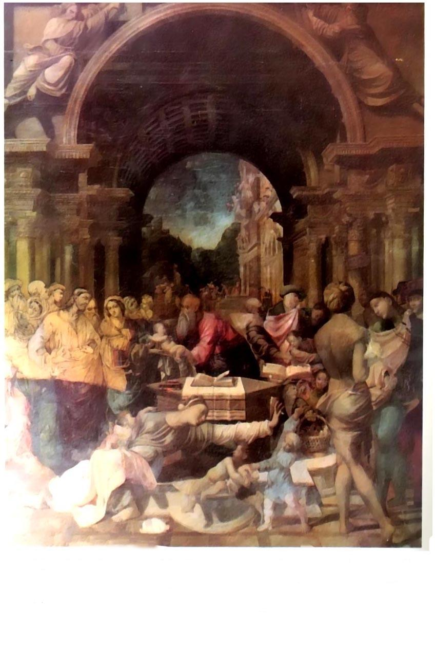 the purification